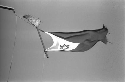 Israel Navy flag with a broom raised as simbol of victory at sea.